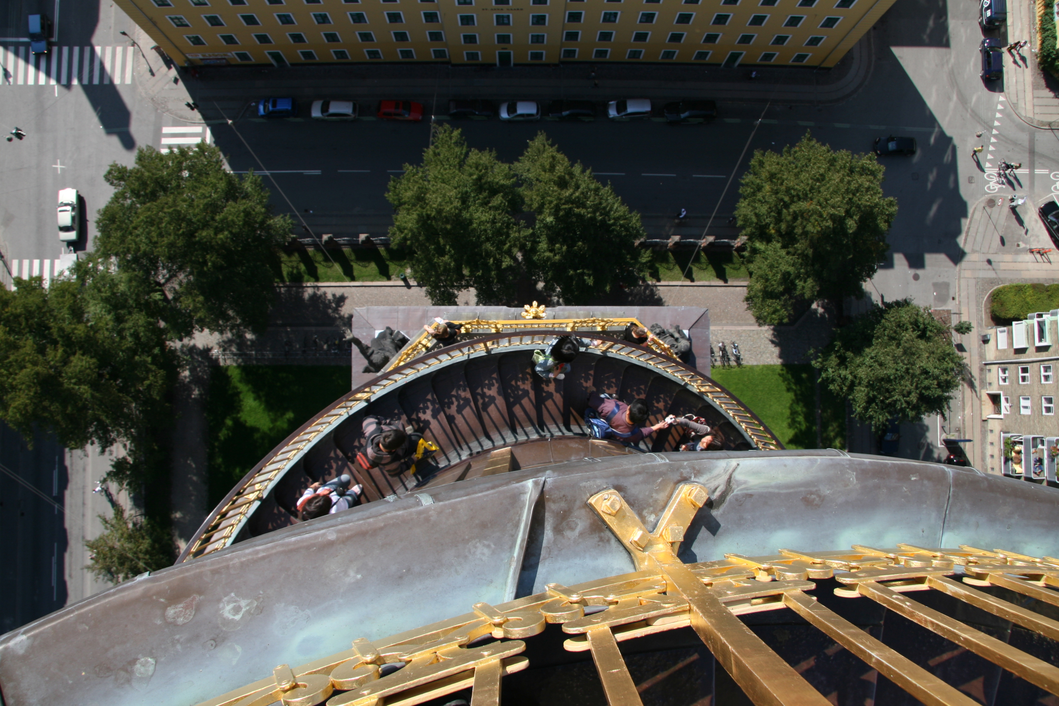 Vor Frelser Kirke (Church of Our Saviour), Copenhagen, Denmark. View down from the steeple.